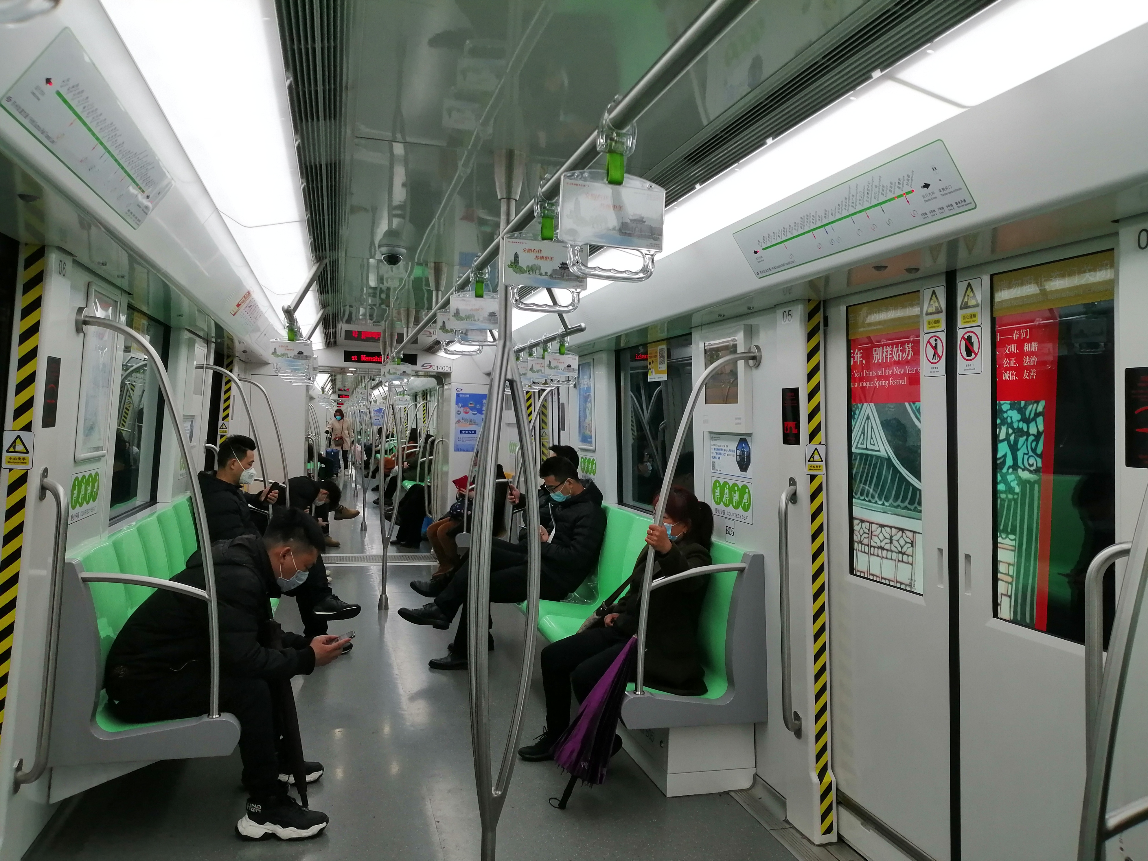 All passengers wear masks in the train.